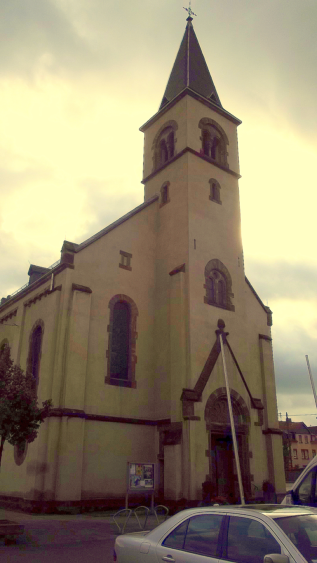 Exterior of the roman catholic church in Brebach, Saarland, Germany